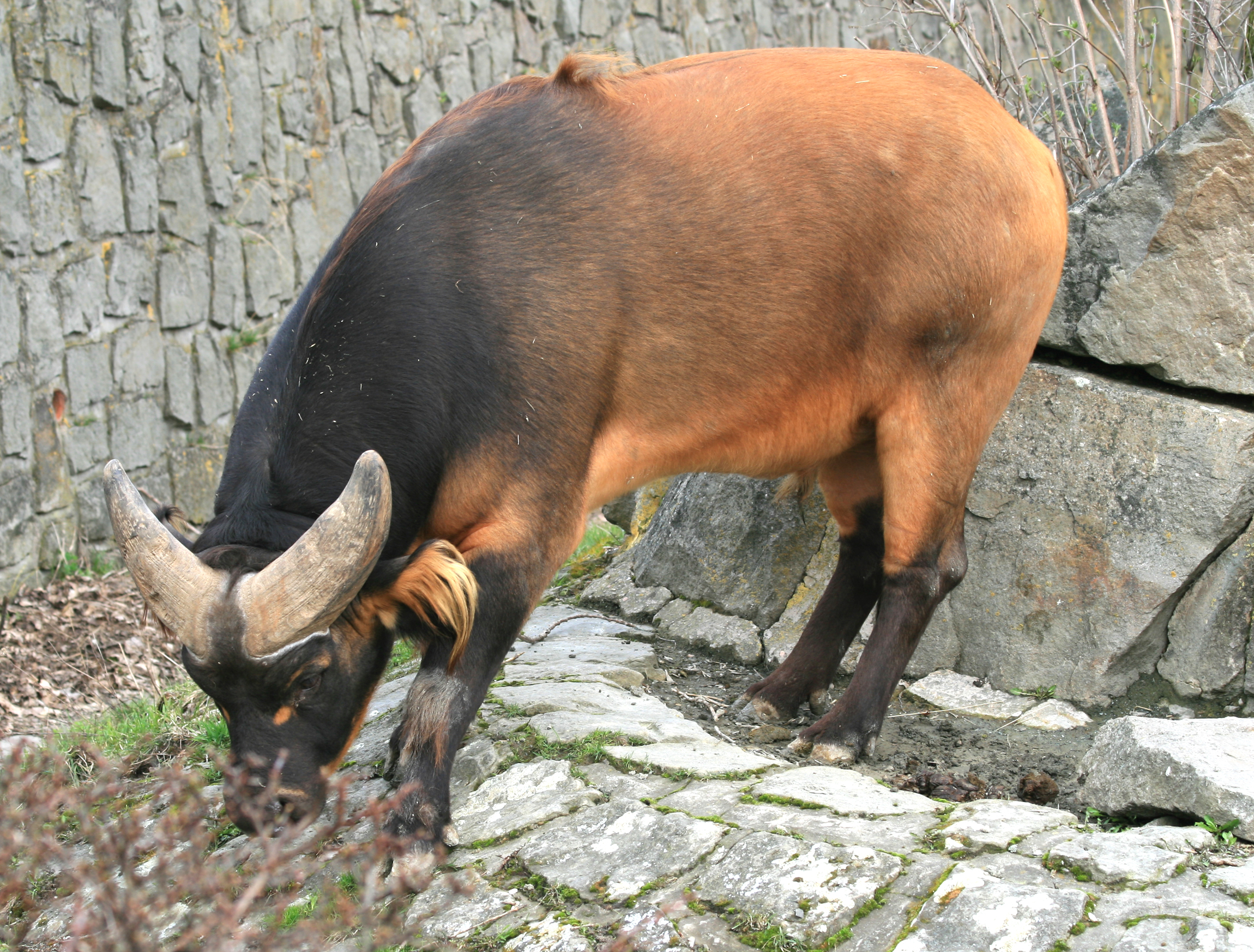 African Forest Buffalo, Syncerus caffer nanus in ZOO Dvůr Králové, Czech Republic